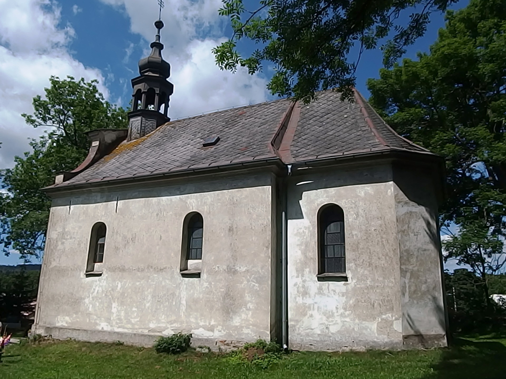 Horní Město, Bruntál District, Czechia, part Skály.